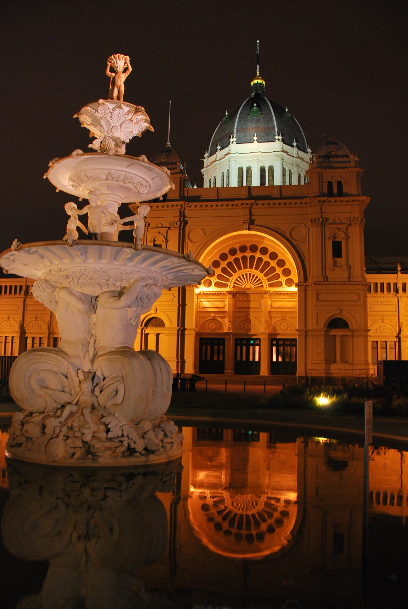 Royal Exhibition Building at night time, Melbourne, Victoria, Australia